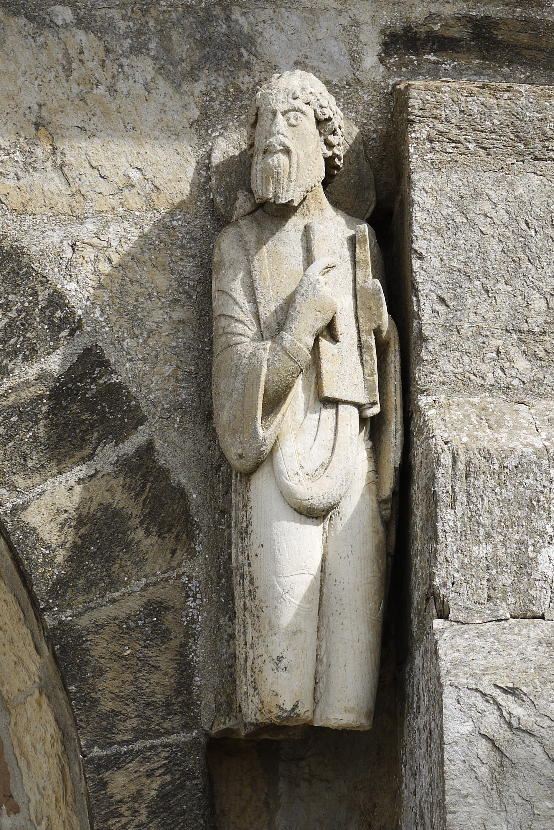 Sculpture of John the Baptist, in the church Santa Marta de Tera, Benavente, Zamora, Spain.